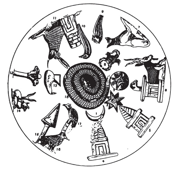 Hinke's artwork for the divine symbols on the top of the Land grant to Munnabittu kudurru. 2 = Star of Ishtar 3 = Star of Shamash 7 = Dog (Gula's) 8 = Scorpion 13 = category:Oil lamps (Oil lamp) 17 = (perched) Bird Center = Snake god Nirah (for god Ishtaran) (Note:sometimes "Non-coiled snake", extending along the upper edges of the kudurru, and not always easily visible in photos.)